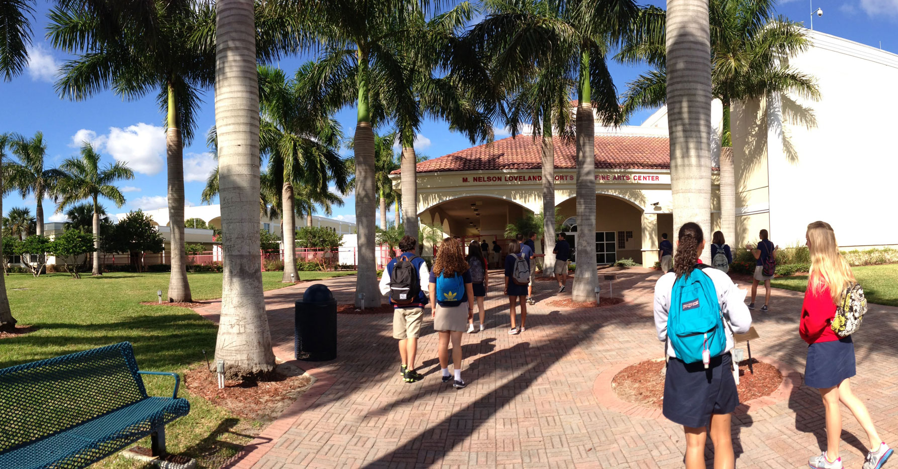 This is an image of the M. Nelson Loveland Sports and Fine Arts Center at The King's Academy in West Palm Beach, Florida.